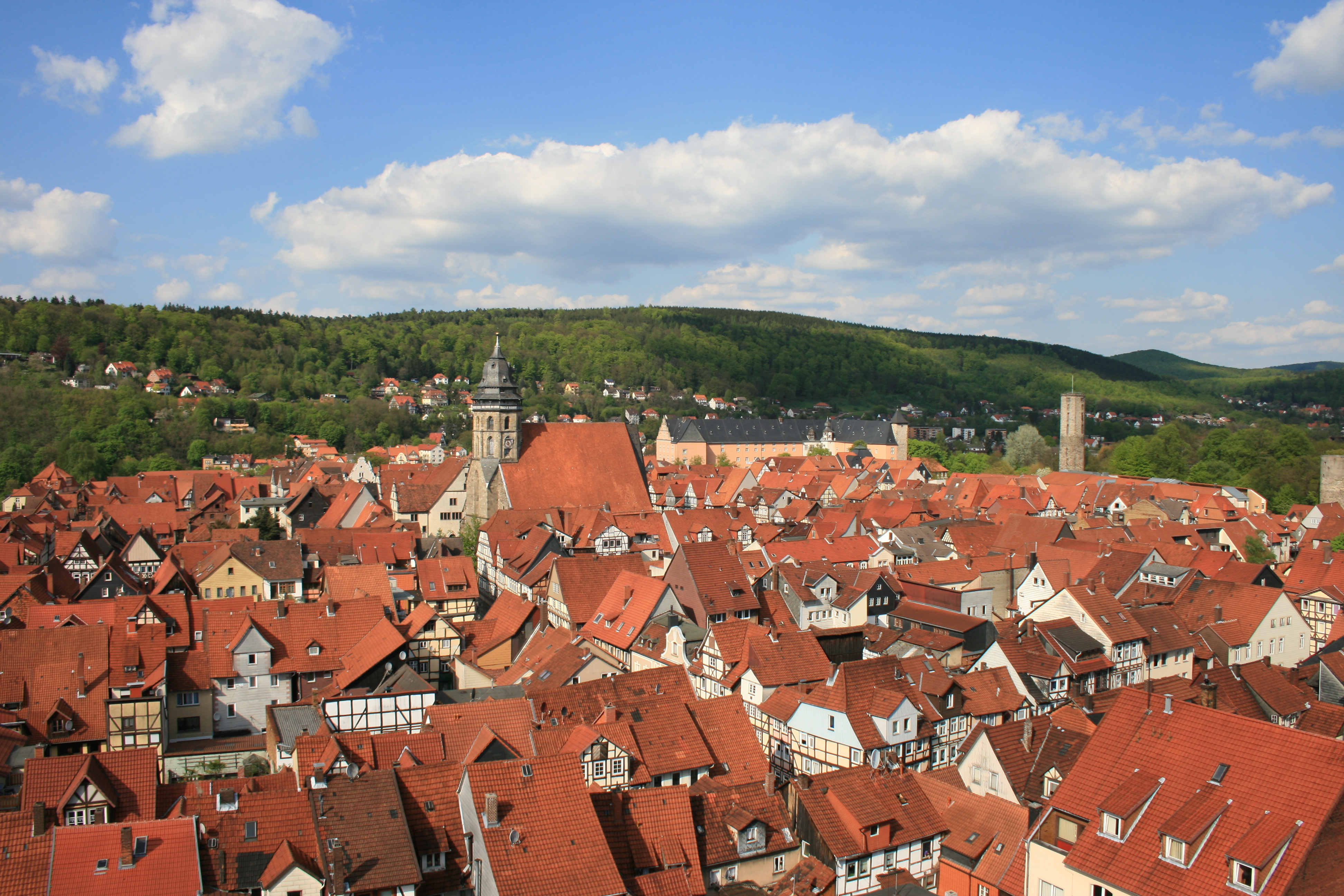 View from Fährenpfortenturm (Hann. Münden, Germany) towards the northeast